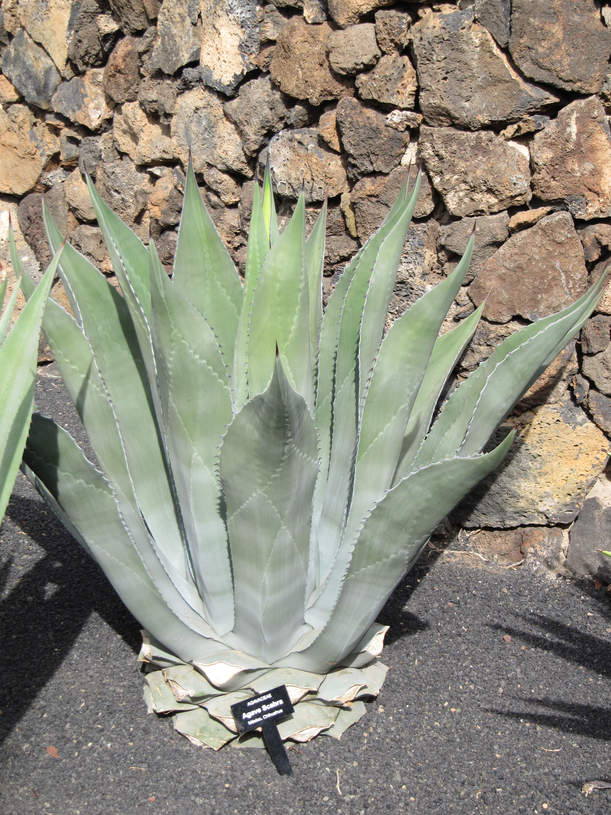 Agave asperrima (scabra)